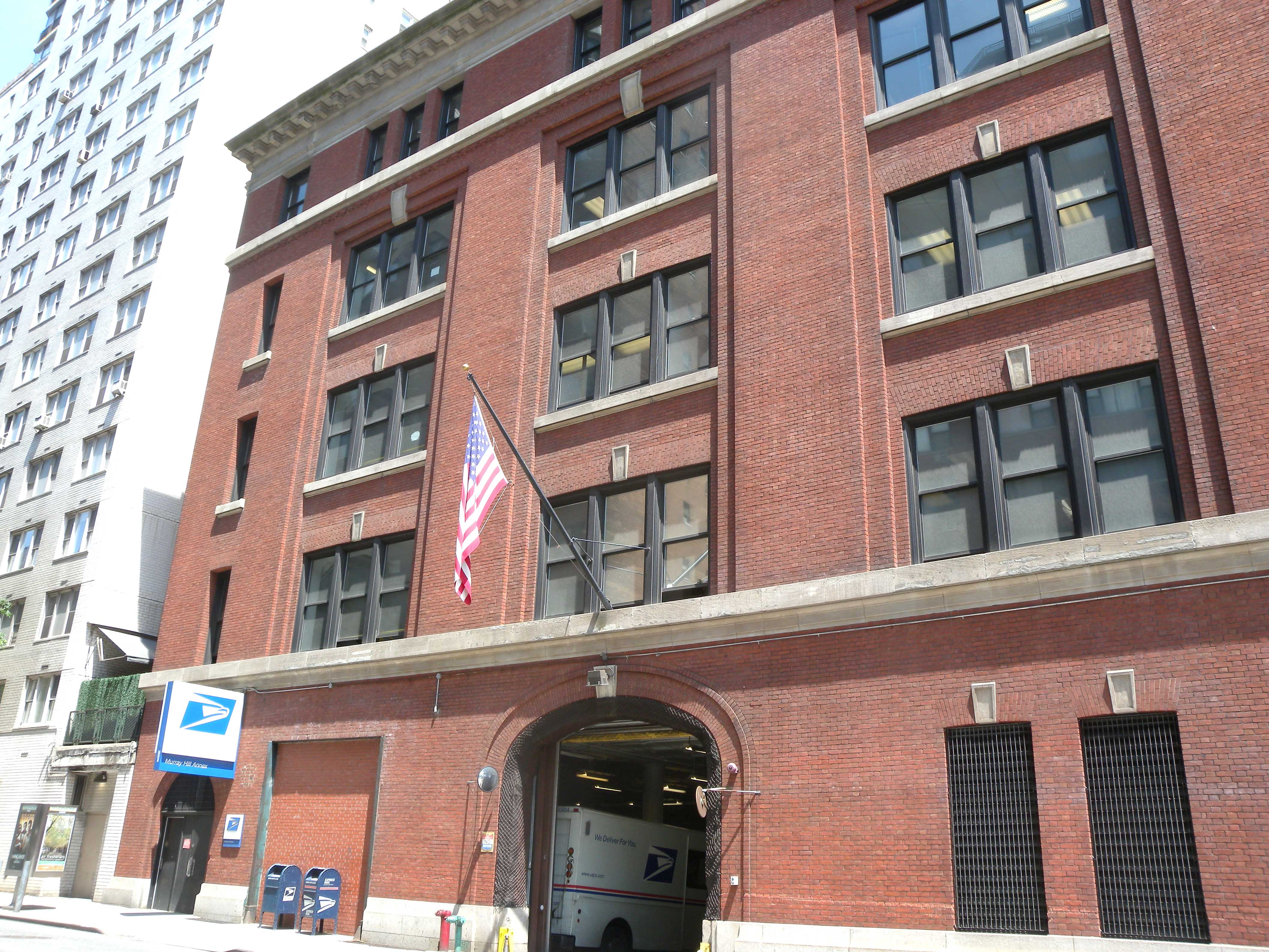 Looking north at Murray Hill Annex of US Post Office at 205 East 36th Street in Manhattan on a sunny midday.